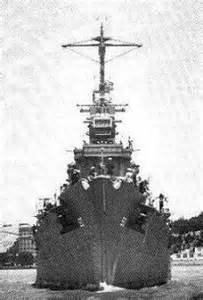 Bow view of the U.S. Navy light cruiser USS Helena (CL-50) at the Mare Island Naval Shipyard, California (USA), in 1942.